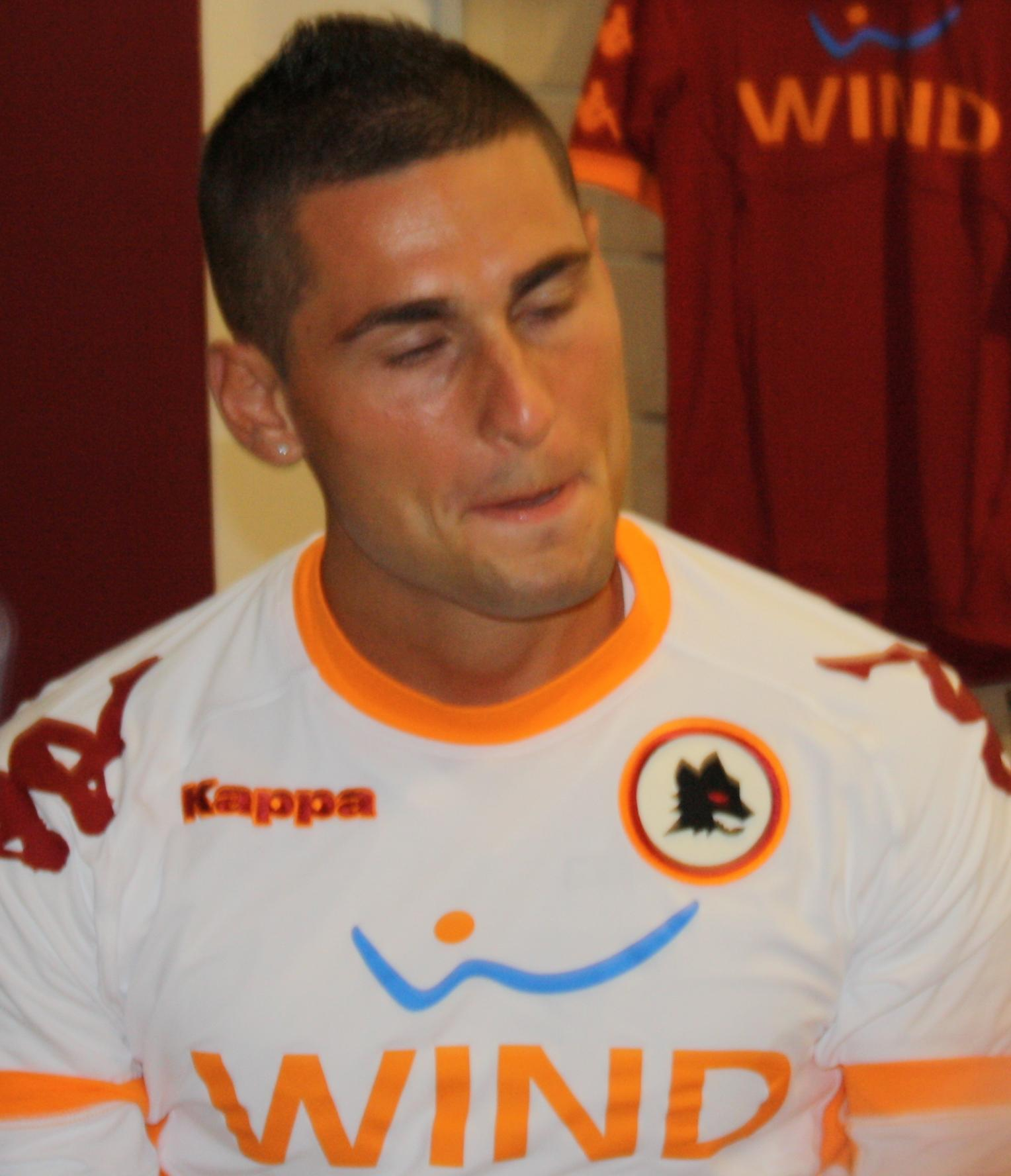 Photo of Aleandro Rosi